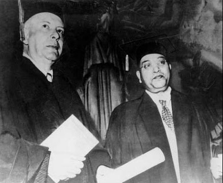 B. R. Ambedkar (R) with Wallace Stevens (L) at Columbia University after receiving Doctor of Laws (LLD) on 5 June 1952